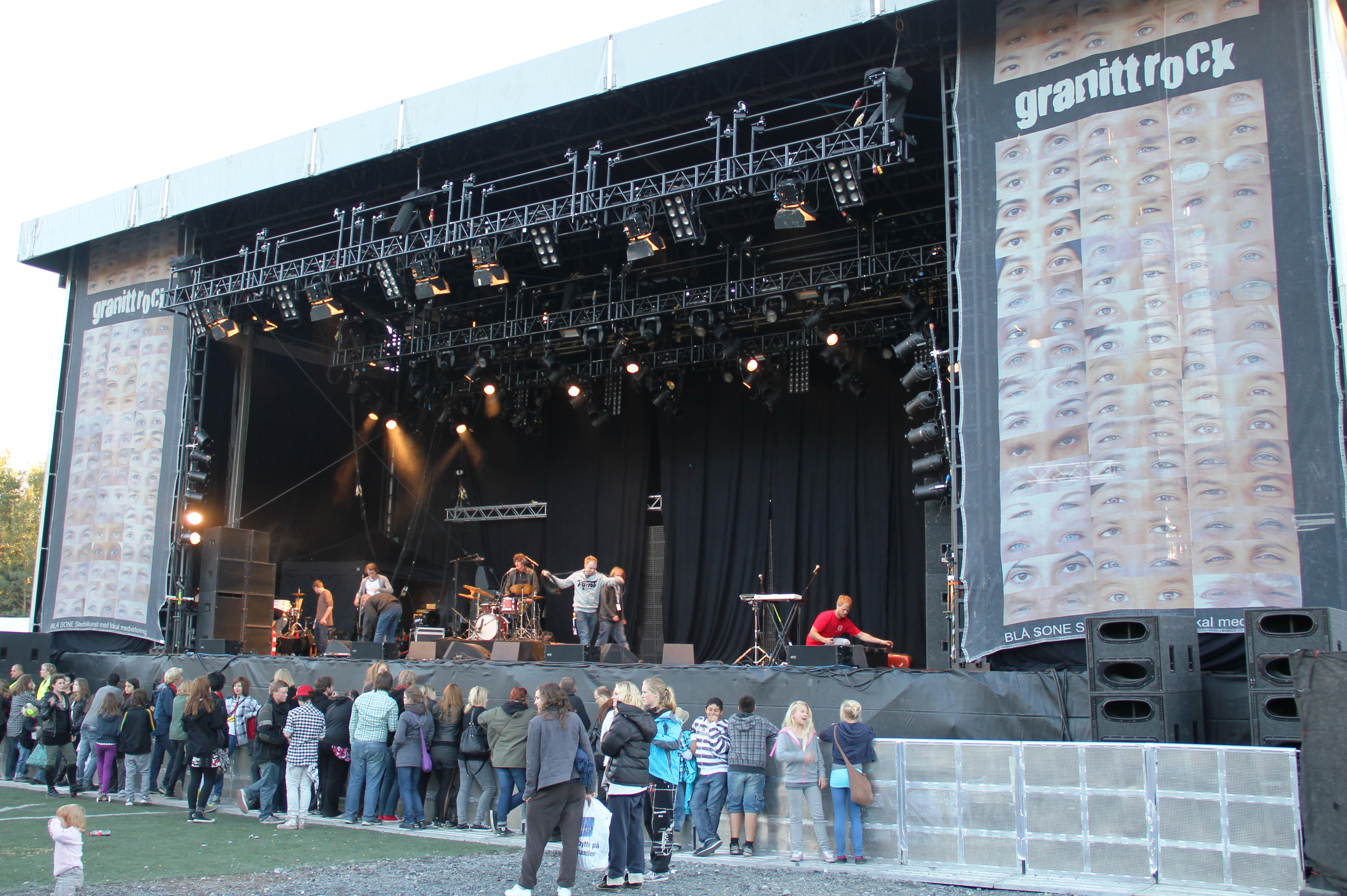 The stage at the 2010 GranittRock.